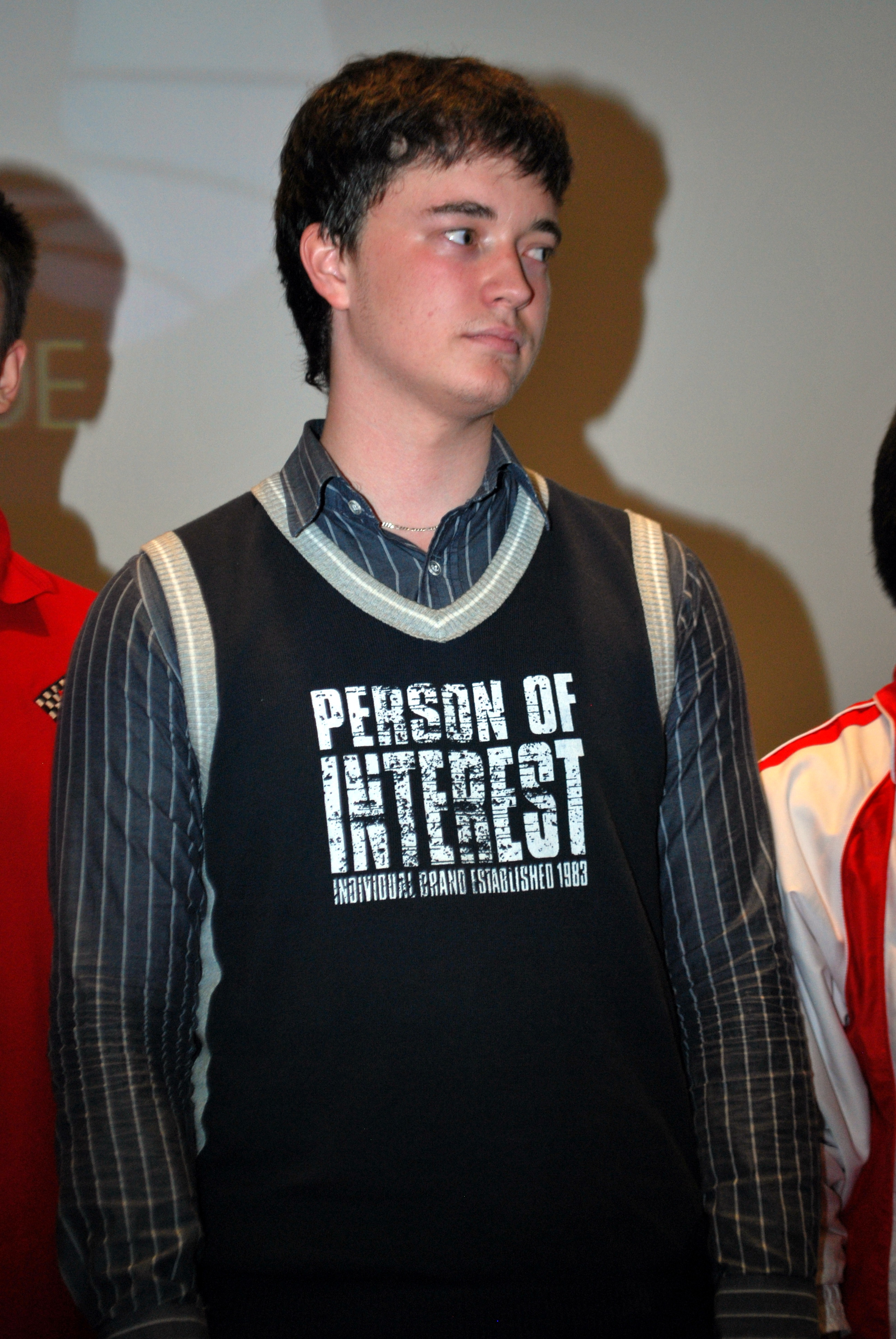 GM Shimanov Aleksandr, World Youth Chess Championship, Porto Carras 2010.